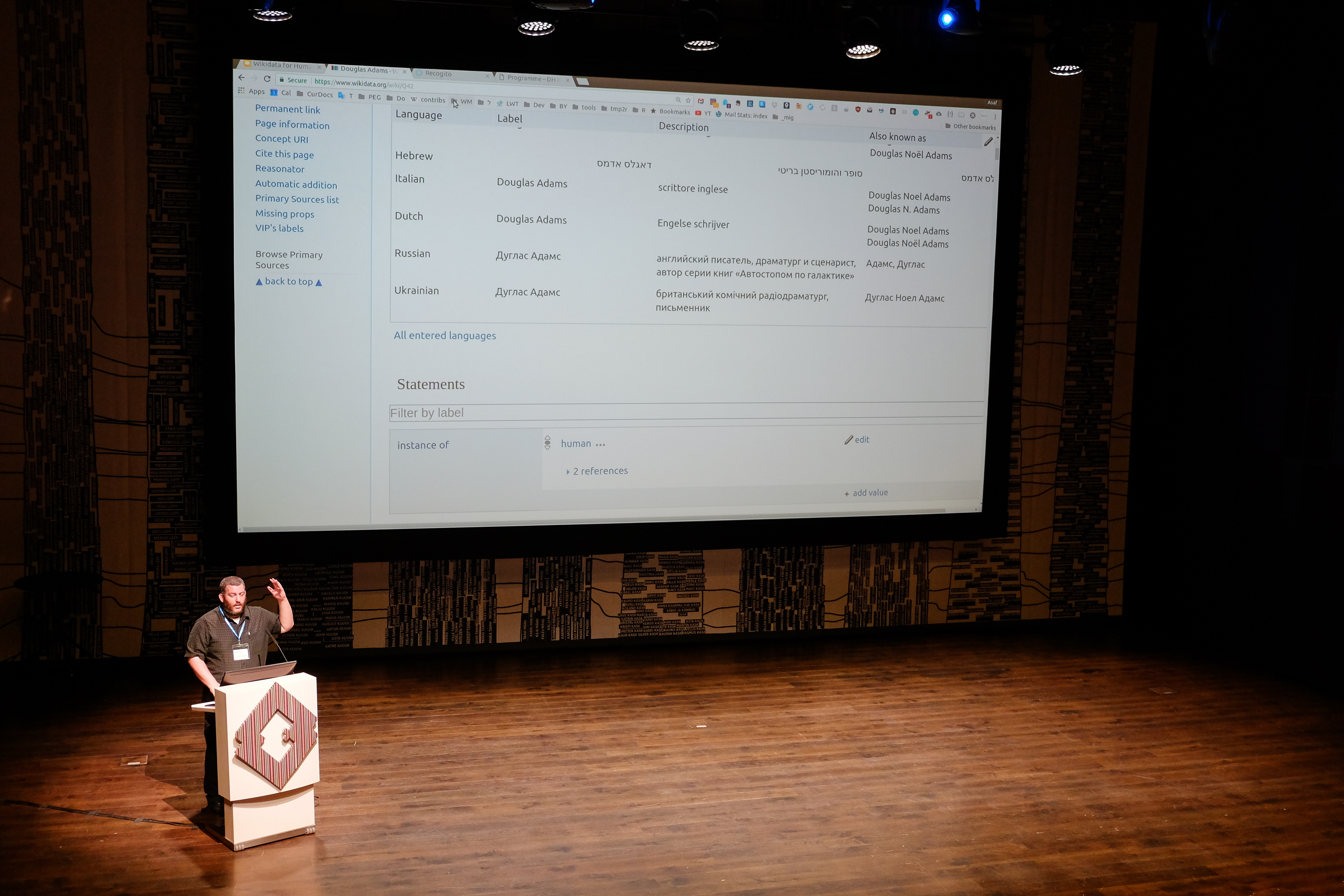 Digital humanities conference in Tartu 2017 - keynote by Asaf Bartov